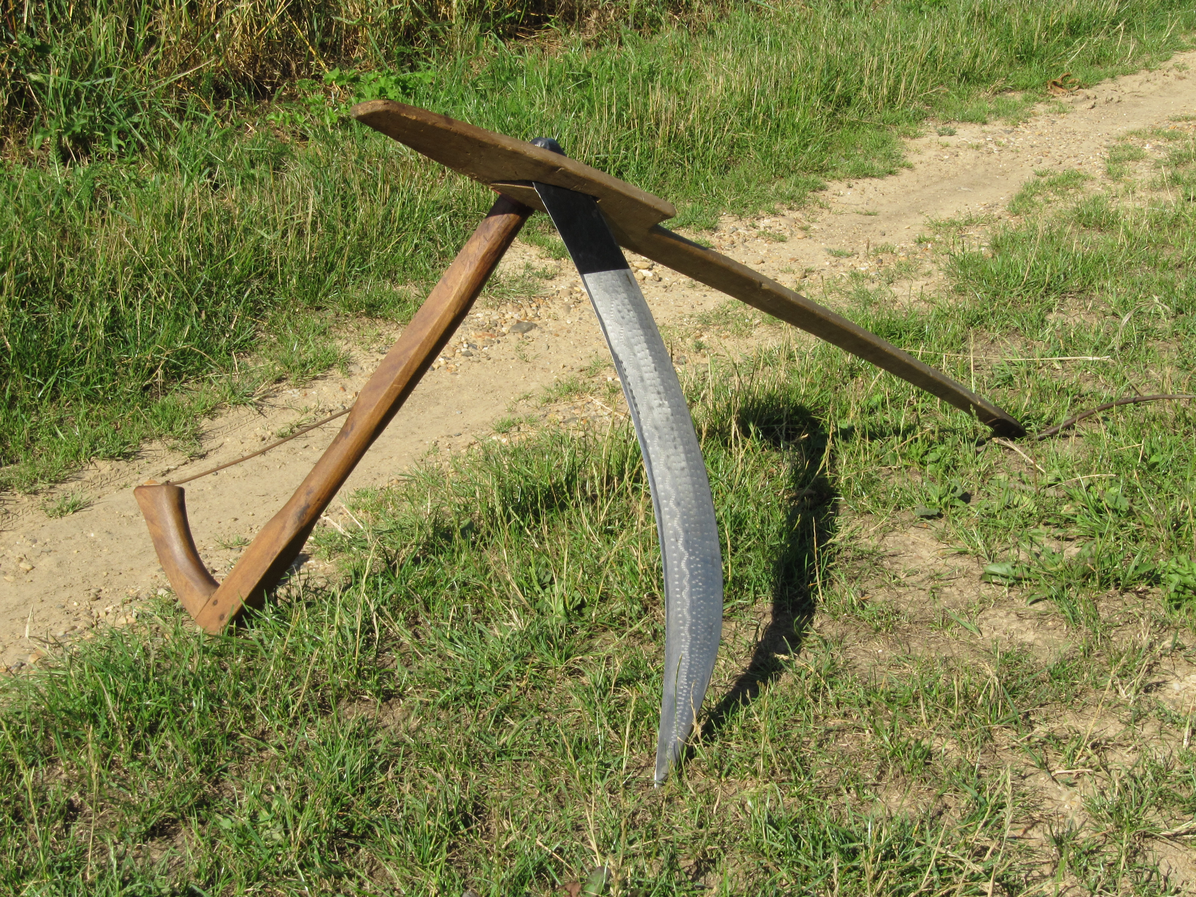 Sickle, Reaping Hook